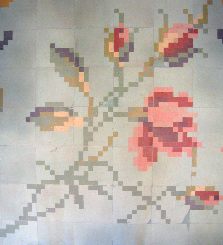 Floor tiles from the years 1904/1905 with a cross-stich ornament in Can Ginestar in Sant Just Desvern (Catalonia, Spain).